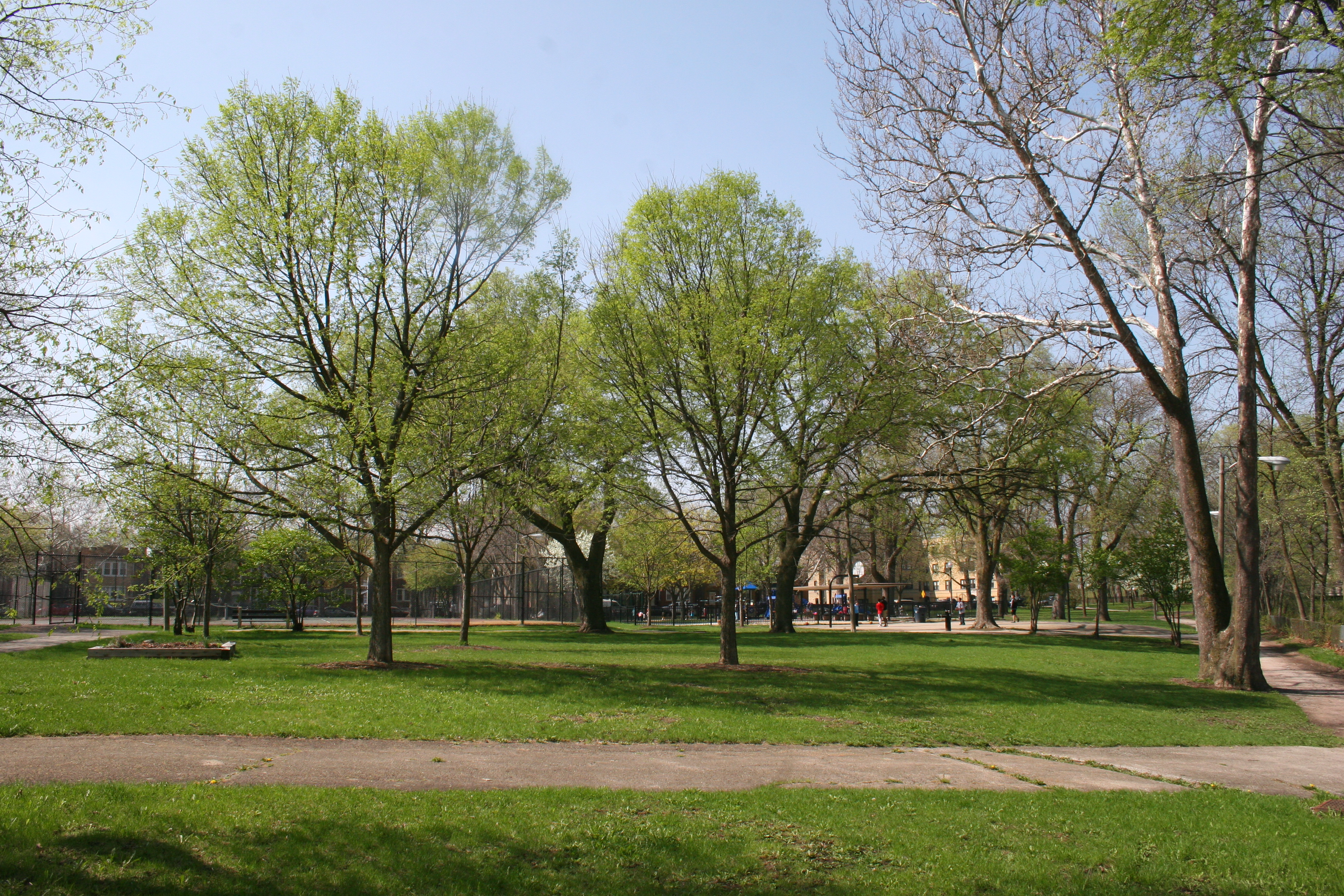 northwest portion of Eugene Field Park, Chicago, Illinois